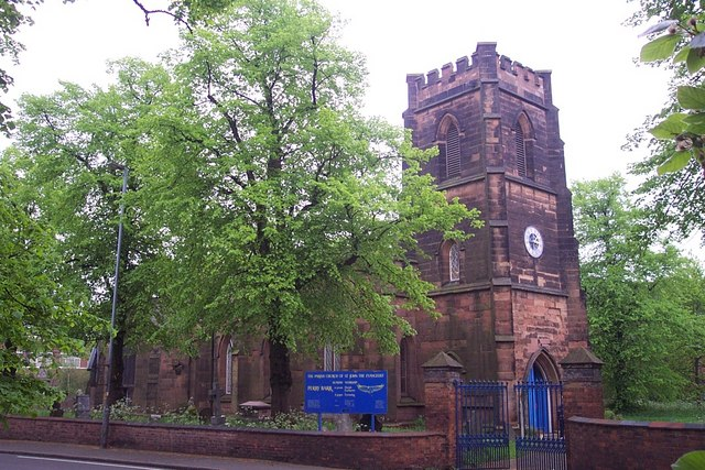 St John the Evangelist parish church, Church Road, Perry Barr, Birmingham, seen from the west